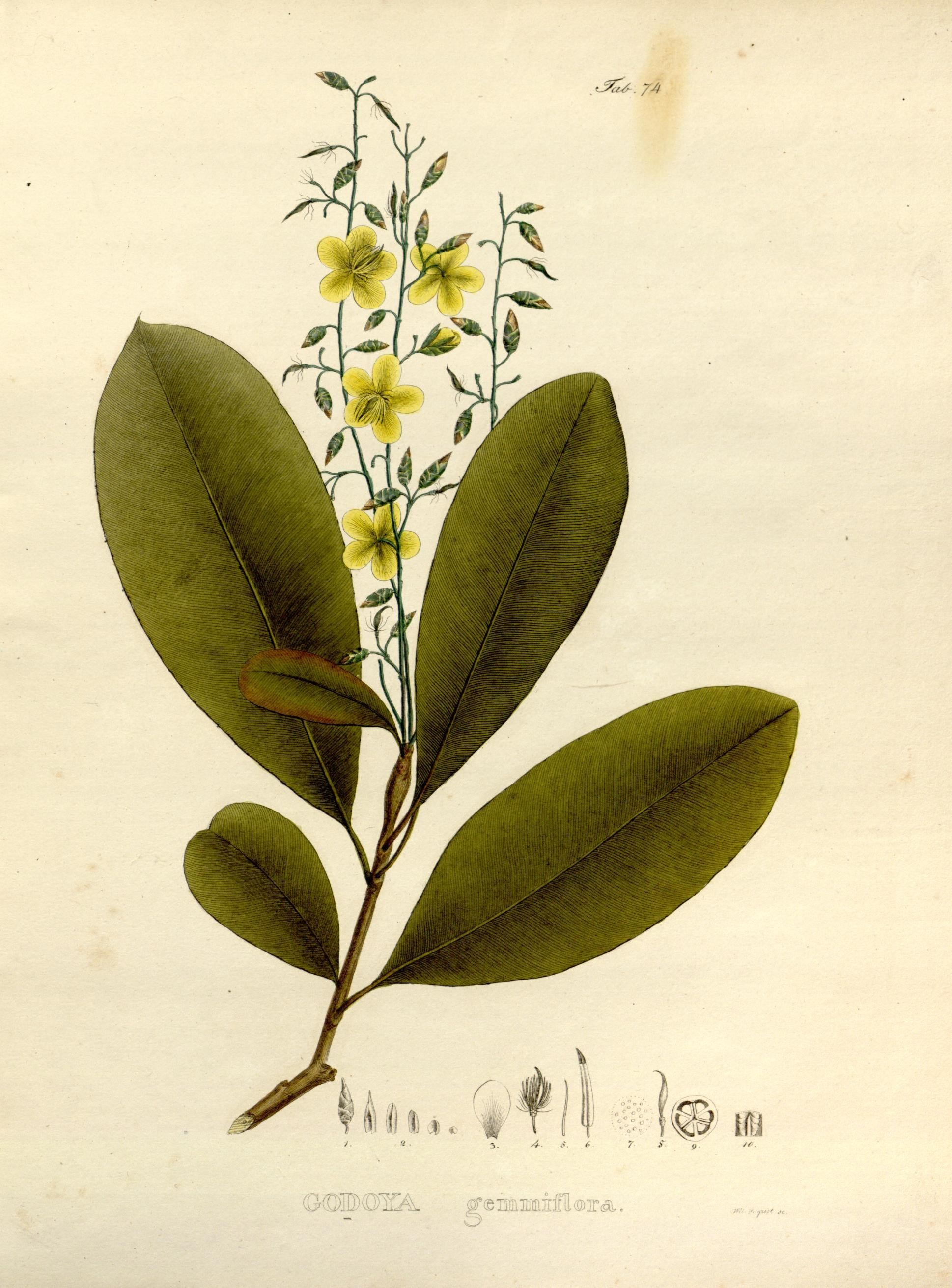 Blastemanthus gemmiflorus (Mart.) Planch. (= Godoya gemmiflora) Nova genera et species plantarum. Monachii [Munich] :Impensis Auctoris,1824-1829 [i.e. 1824-32]..